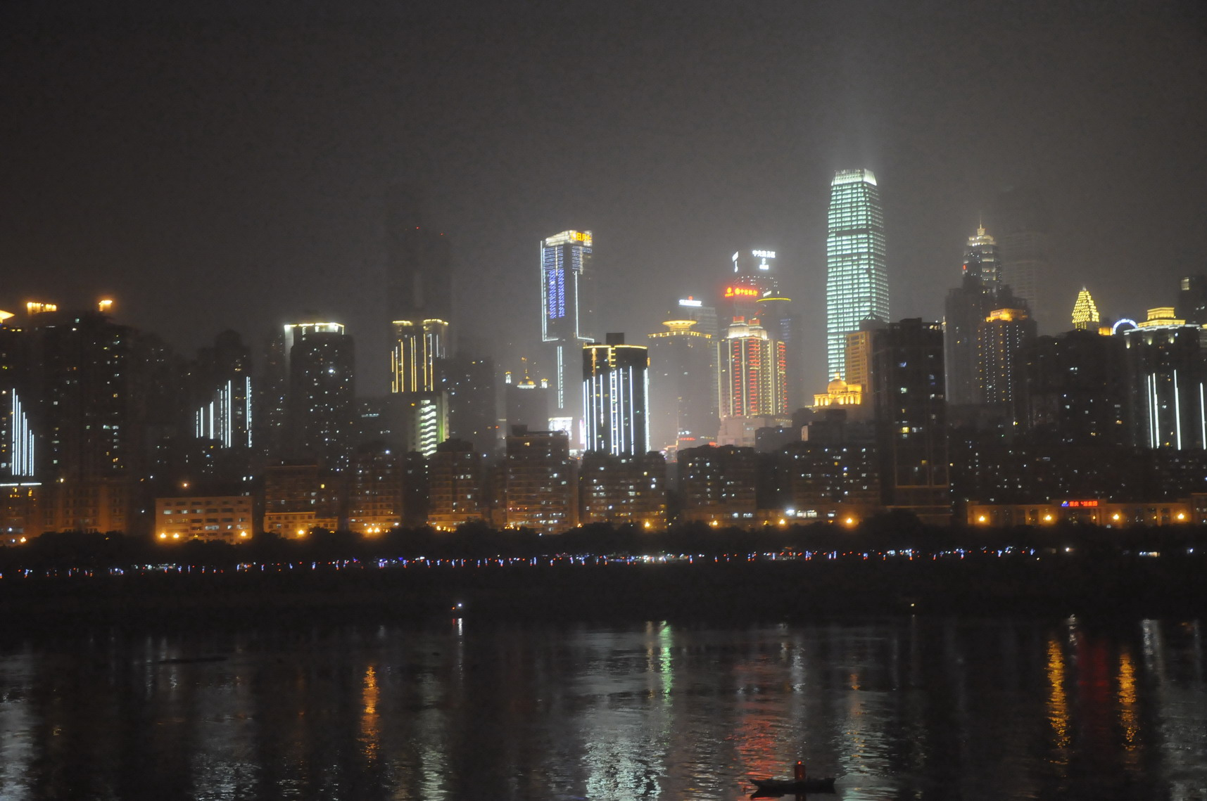 A night view of Chongqing Centre Business District at the angle across Yangtze river.